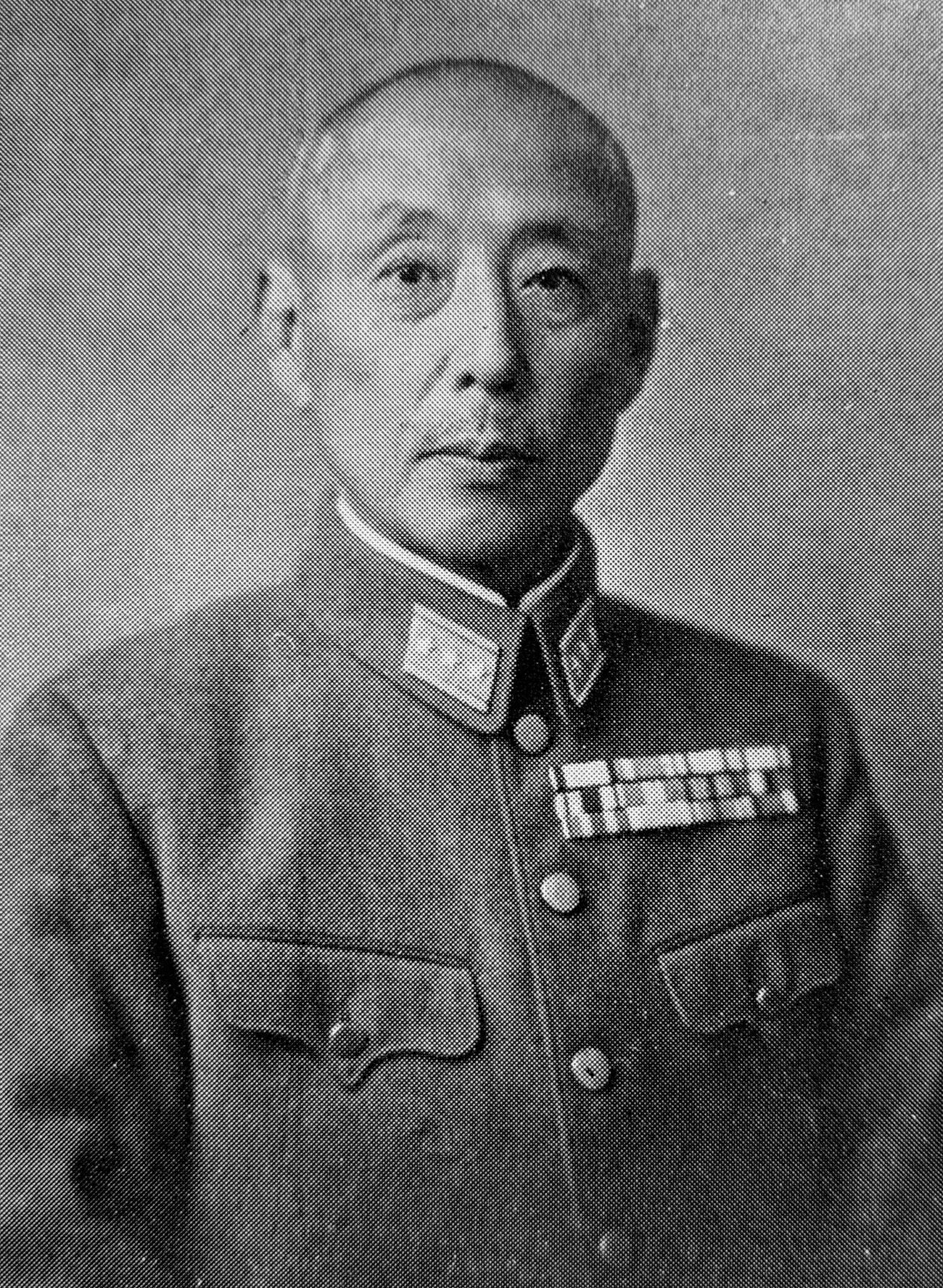 General Keisuke Fujie (1885-1968)